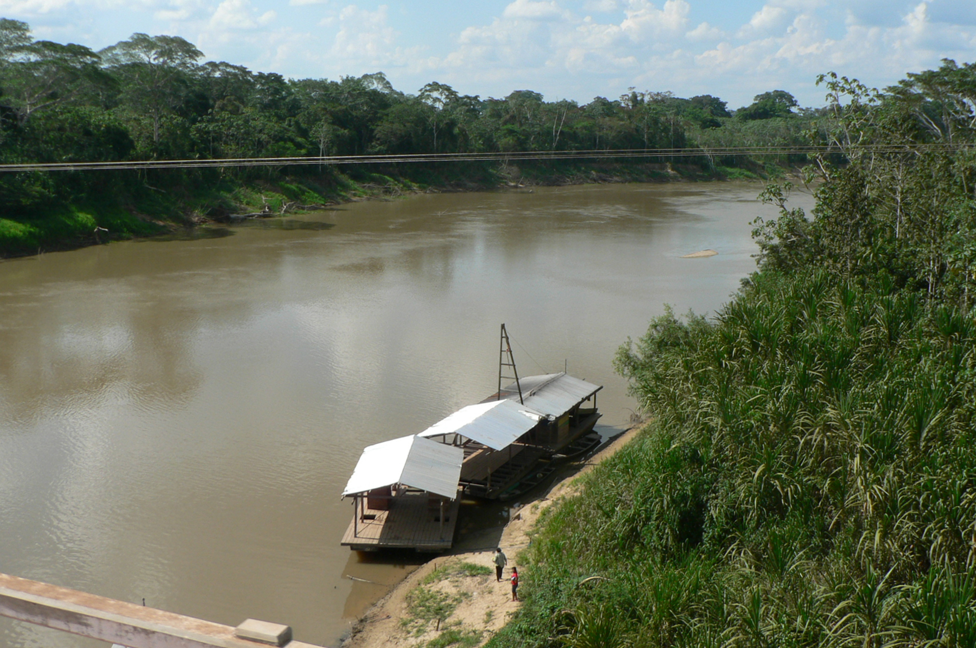 The Río Orthon, seen from the bridge near Puerto Rico, Pando, Bolivia, close to the confluence of Río Tahuamanu and Río Manuripi.